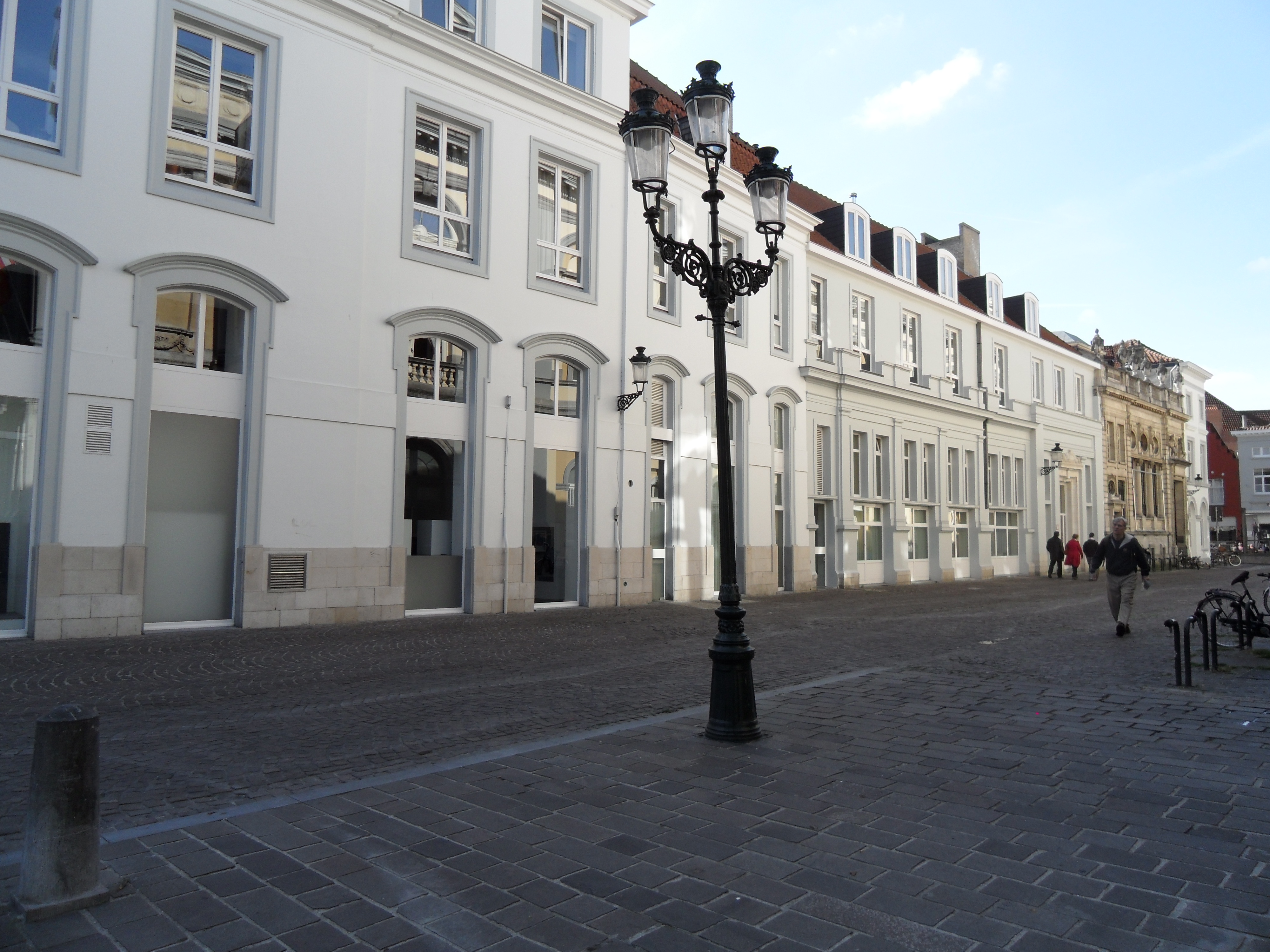 Van Ooststraat in Bruges